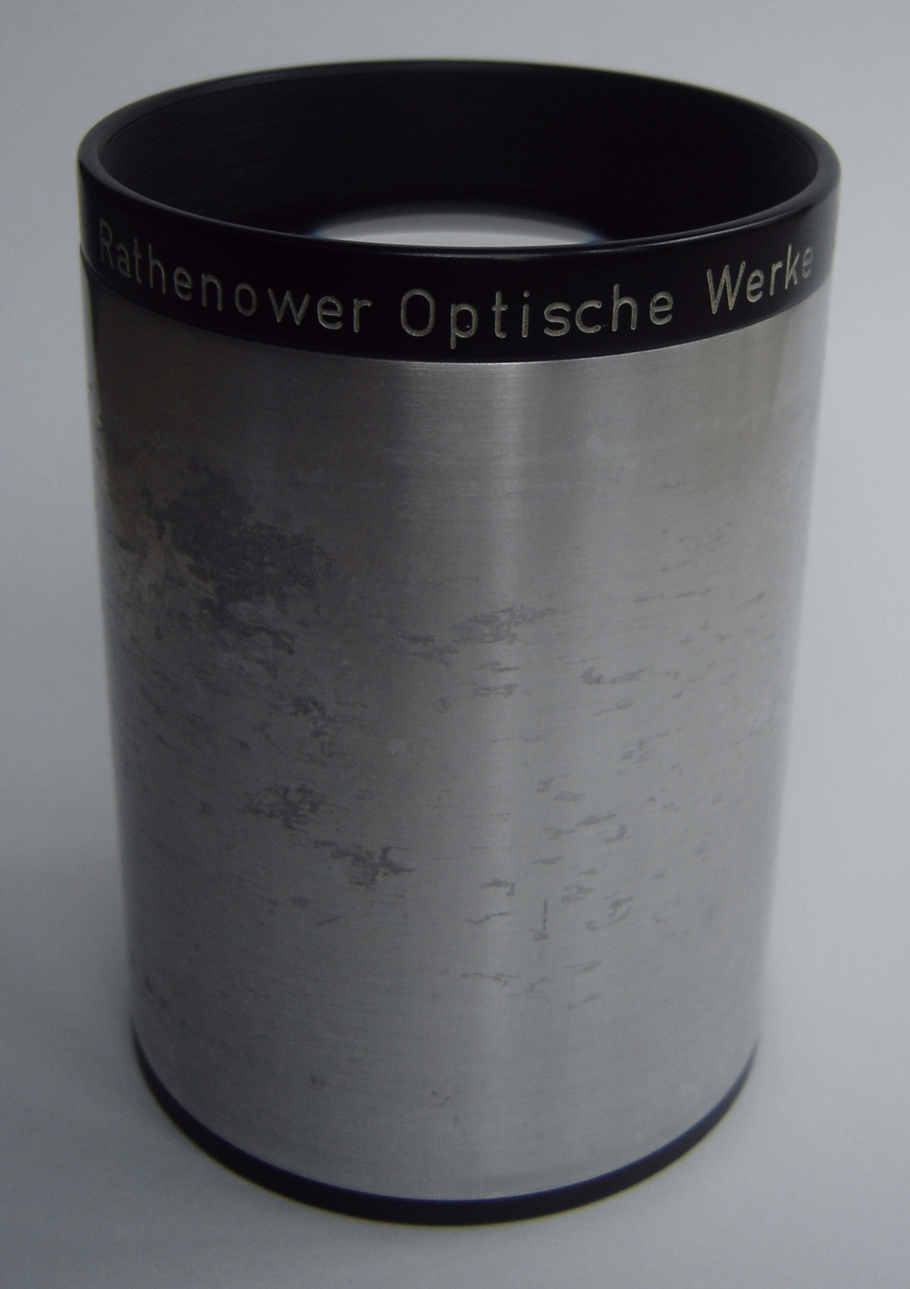 This is a projection objective of the Diarectim series produced by the former East German optics company VEB Rathenower Optische Werke. It was used with an epidiascope. Focal length is given as 250 mm, lens diameter as 62.5 mm. The lens is coated. Serial number P30736. Side view.